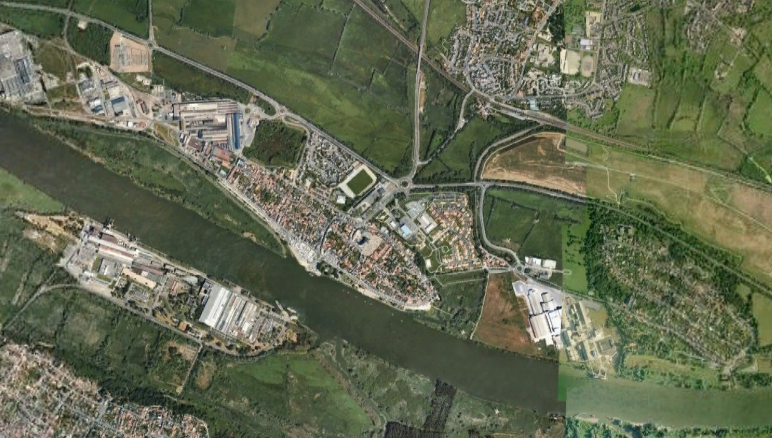 Indre